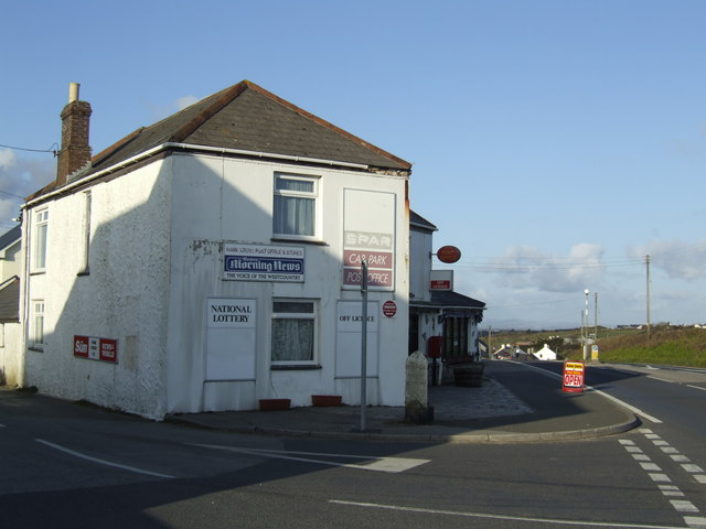 Rame Post Office and general store. A wedge-shaped building by the A394 Penryn to Helston road.